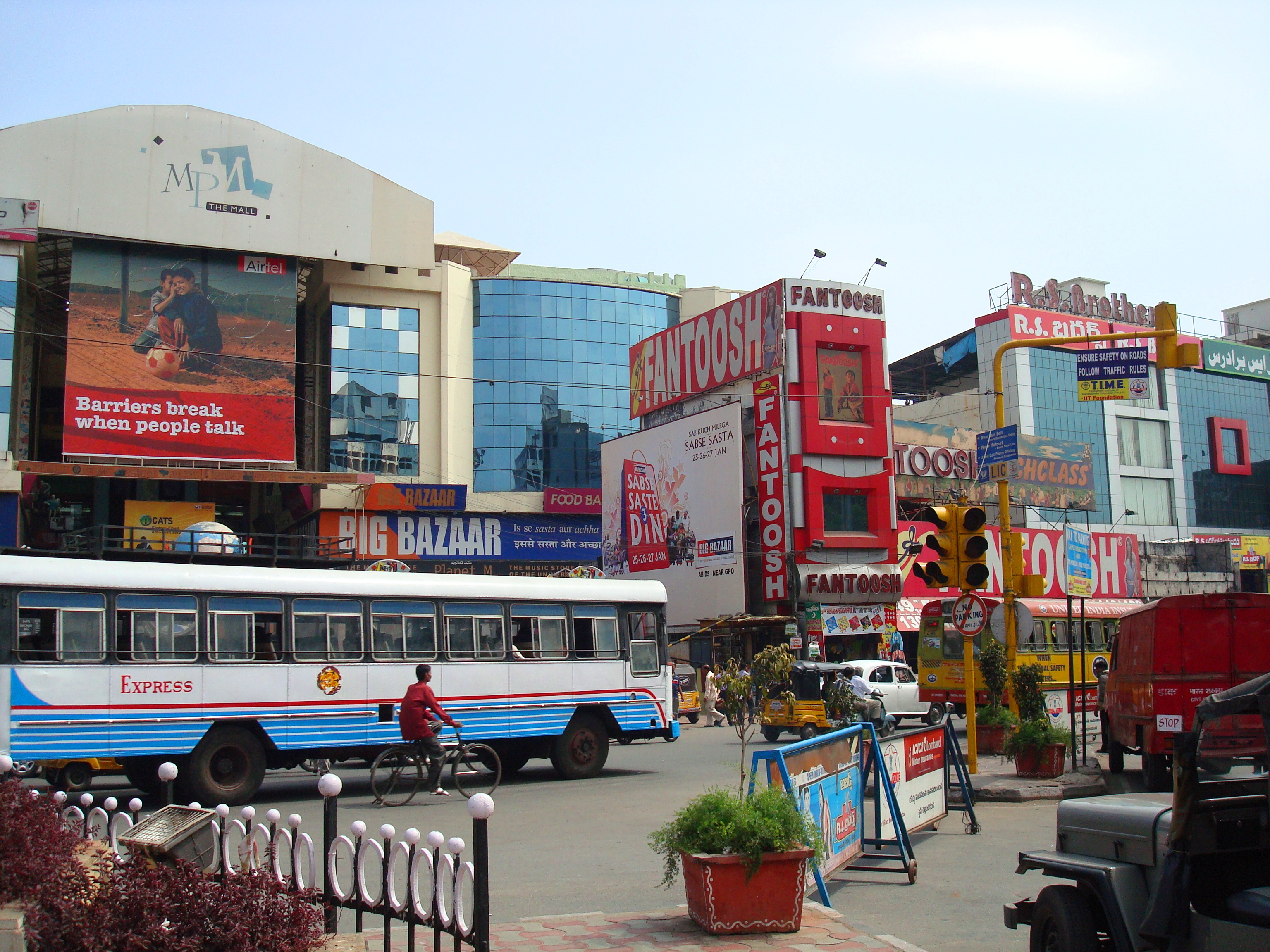 The Abids commercial area, one of the older business districts of Hyderabad.